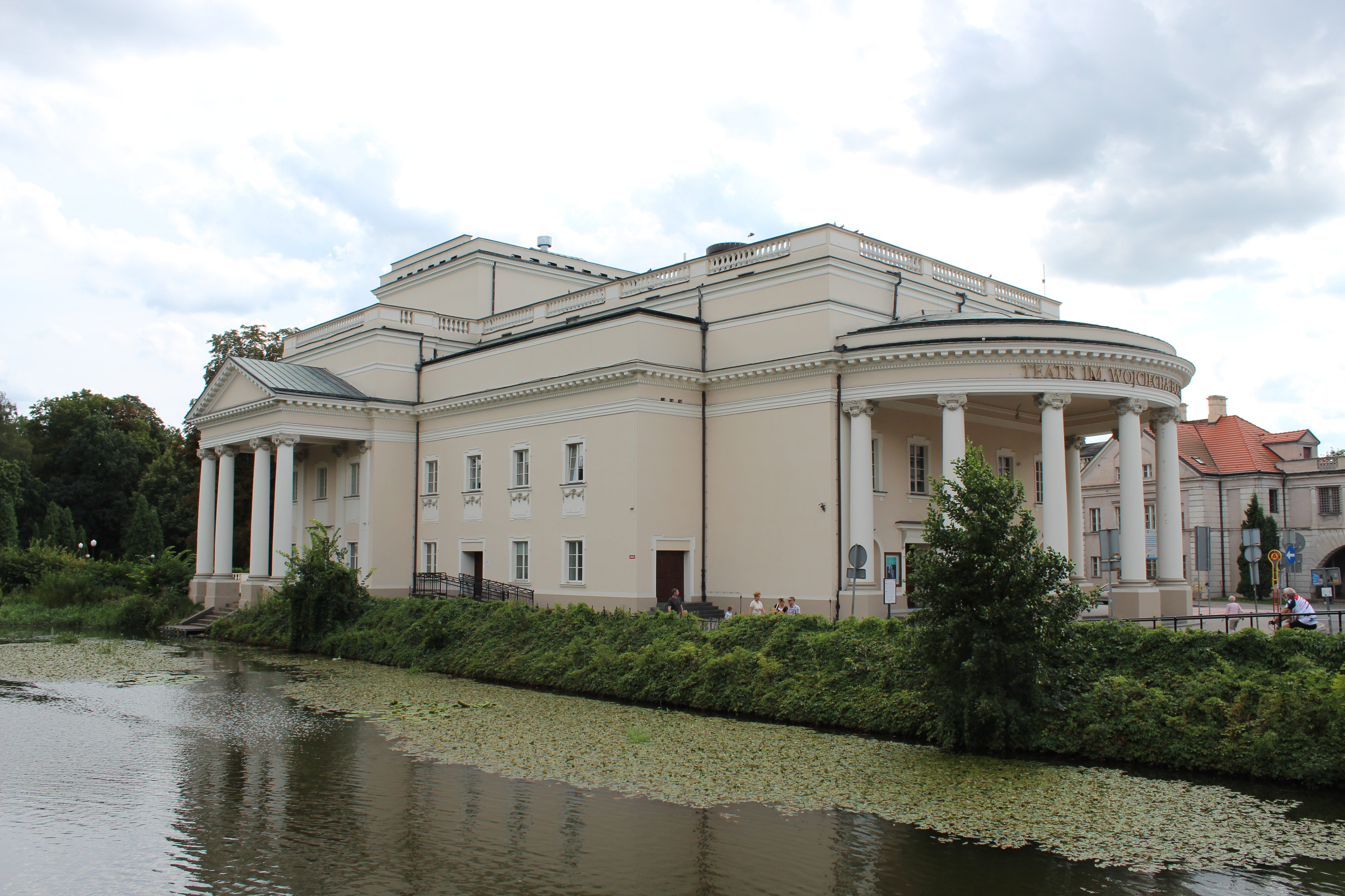 Bogusławski Theatre in Kalisz